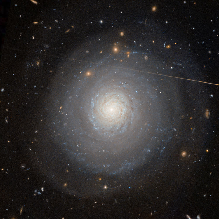 Image of MGC+07-33-27 cropped from